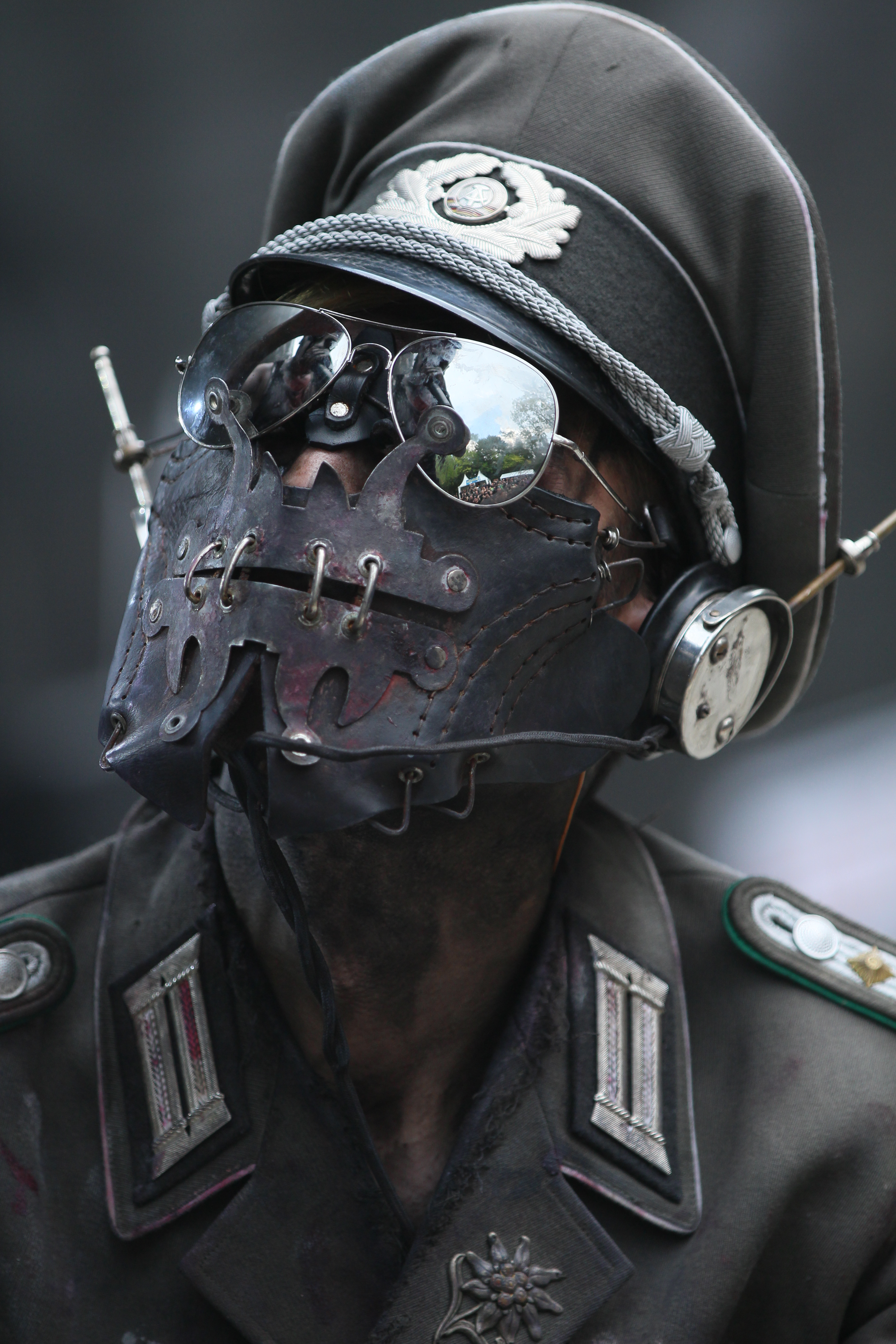 The German Neue Deutsche Härte band Ost+Front at the Nocturnal Culture Night 9 2014 in Deutzen/Germany